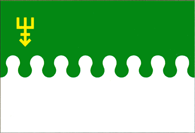 Flag of Edineț District.gif